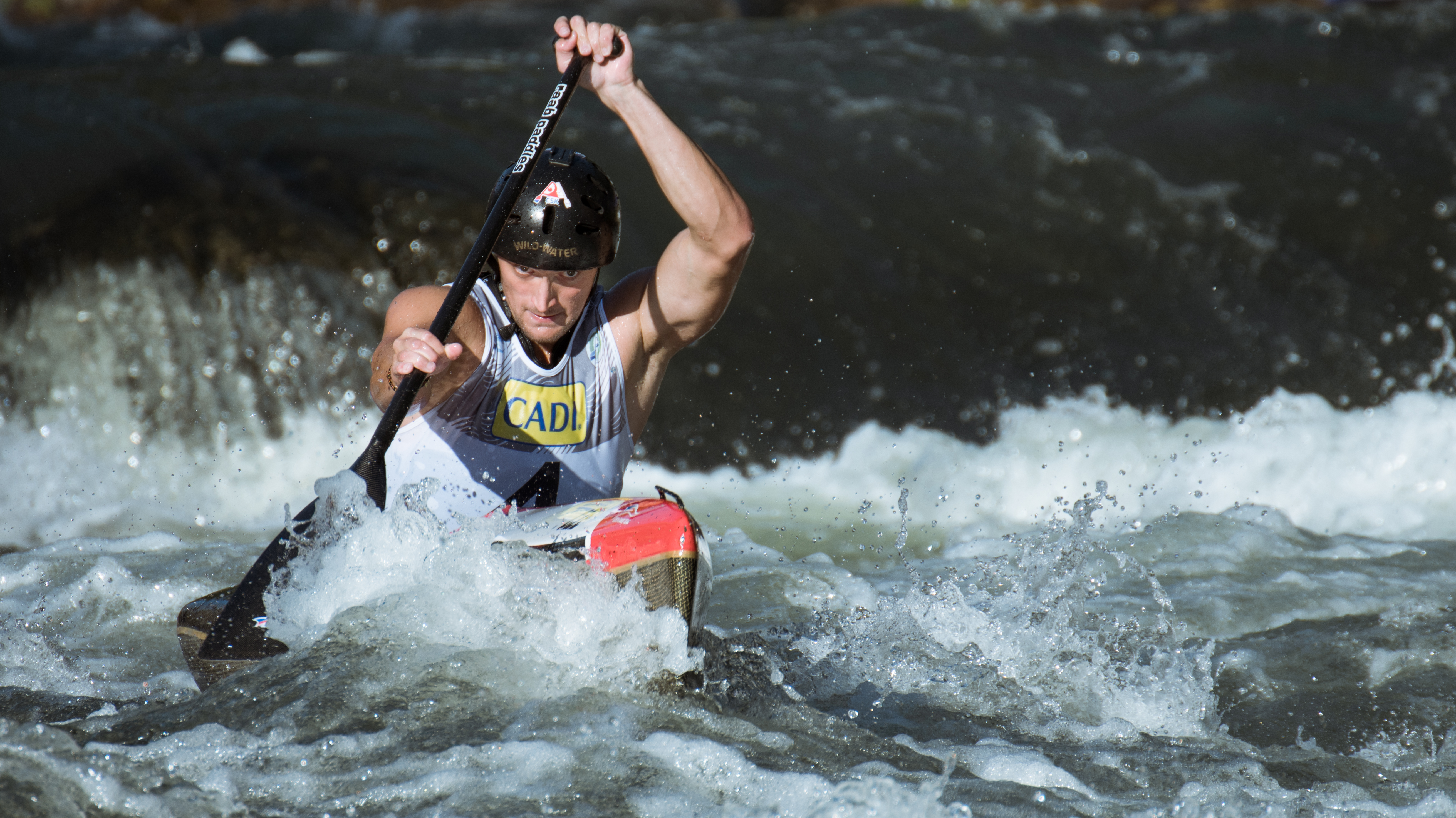 Vladimír Slanina during the 2019 Canoe Wildwater World Championships in La Seu d'Urgell, Spain.